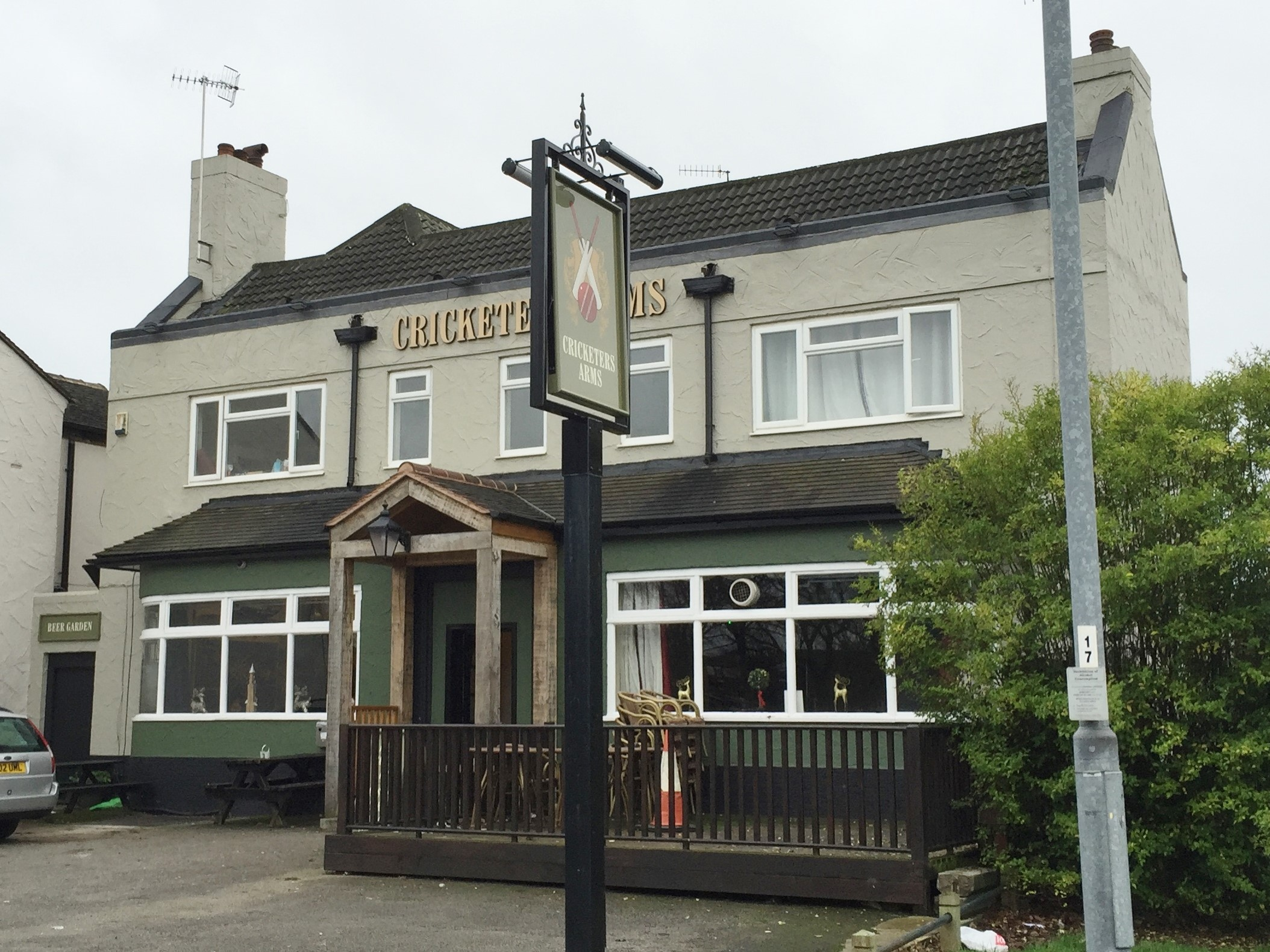 Newcastle-under-Lyme: Cricketers Arms, May Bank